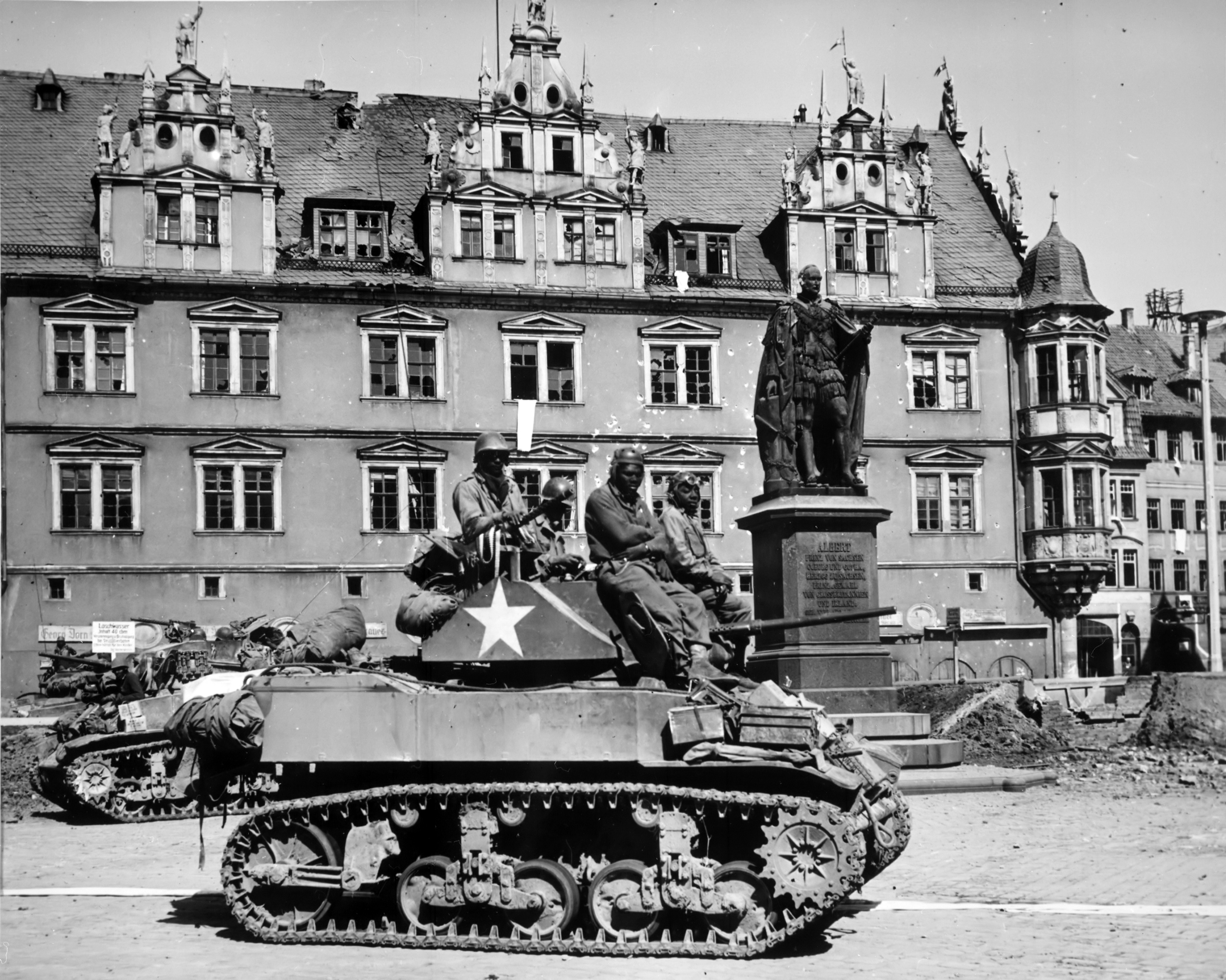 Crews of U.S. M5 Stuart light tanks from Company D, 761st Tank Battalion, stand by awaiting call to clean out scattered Nazi machine gun nests in Coburg, Germany.